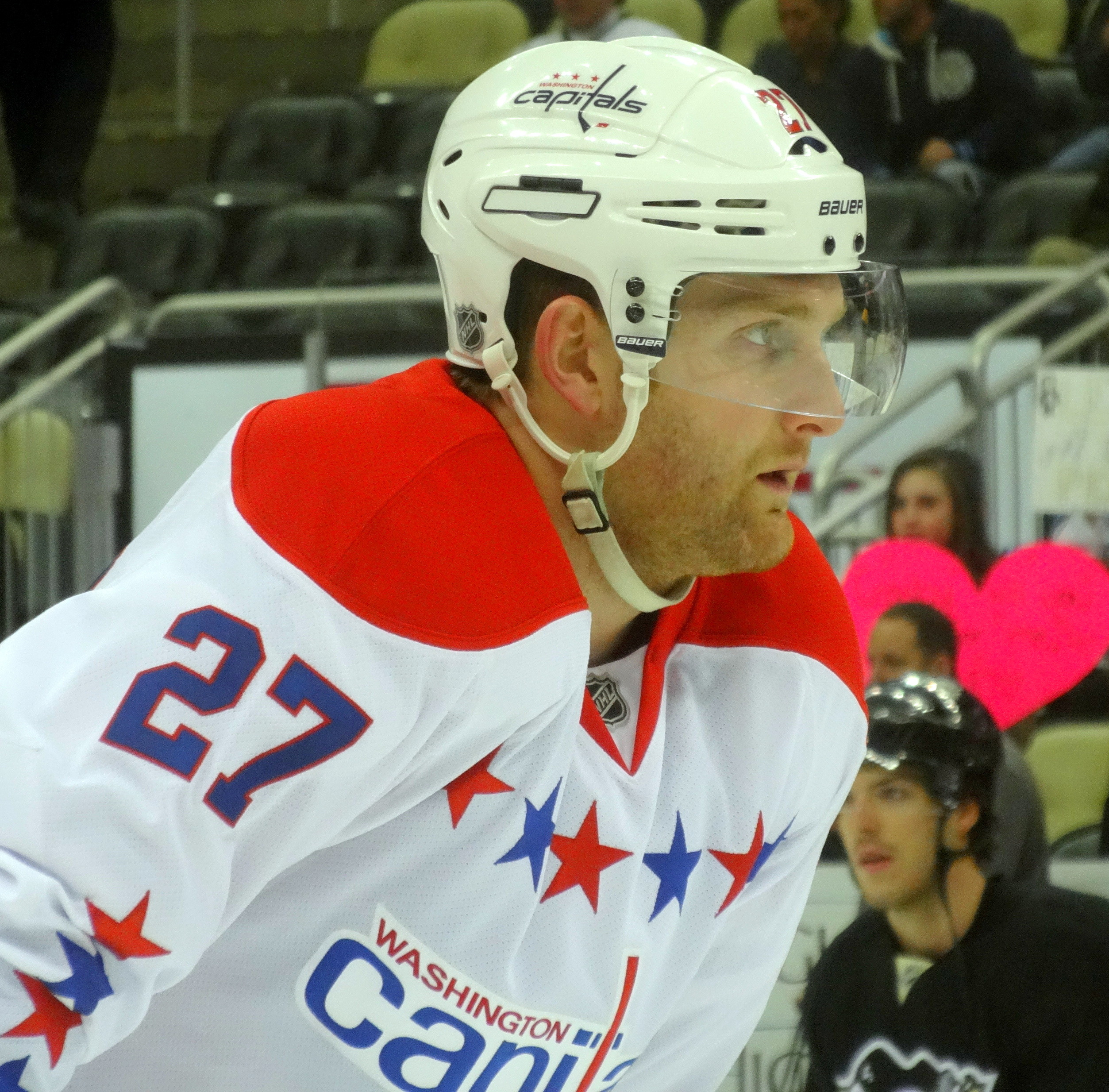 Washington Capitals defenseman Karl Alzner warms up for a game against the Pittsburgh Penguins, March 19, 2013 at Consol Energy Center in Pittsburgh, PA. Photo by PensAreYourDaddy.